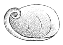 Ventral view of the shell of Schizoglossa novoseelandica.